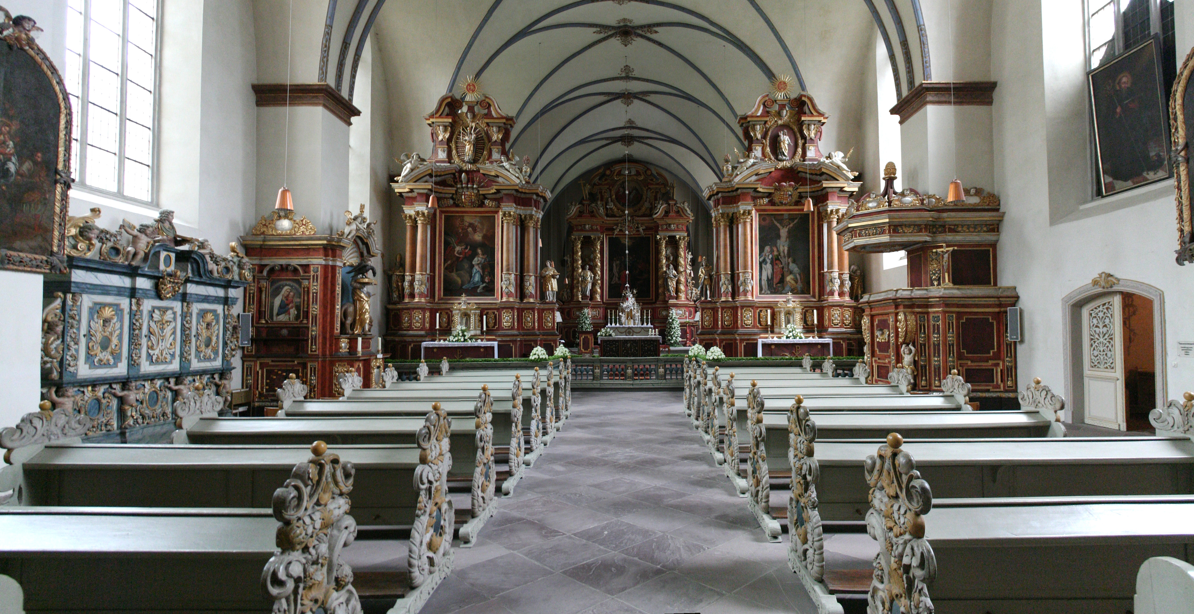 Baroque interior of Corvey Abbey